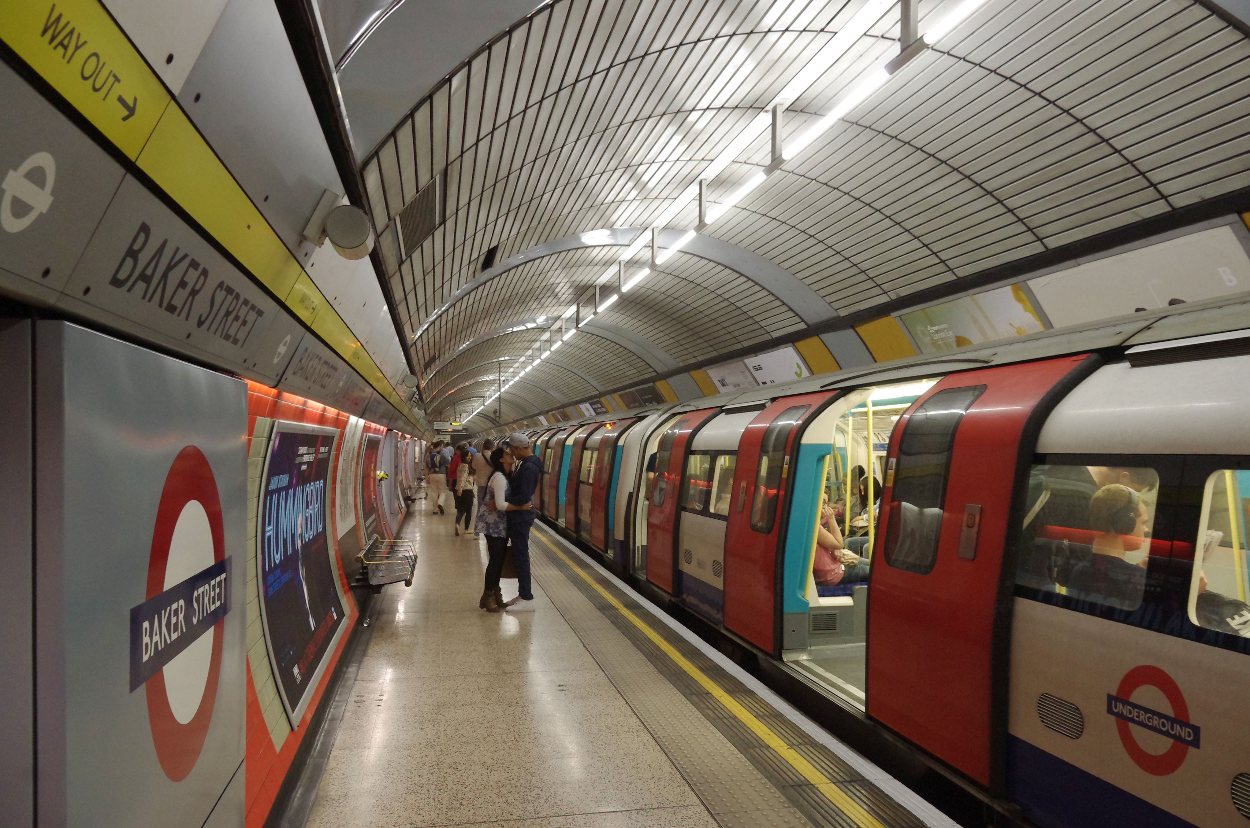 A couple hold each other on the northbound Jubilee Line platform at Baker Street tube station.